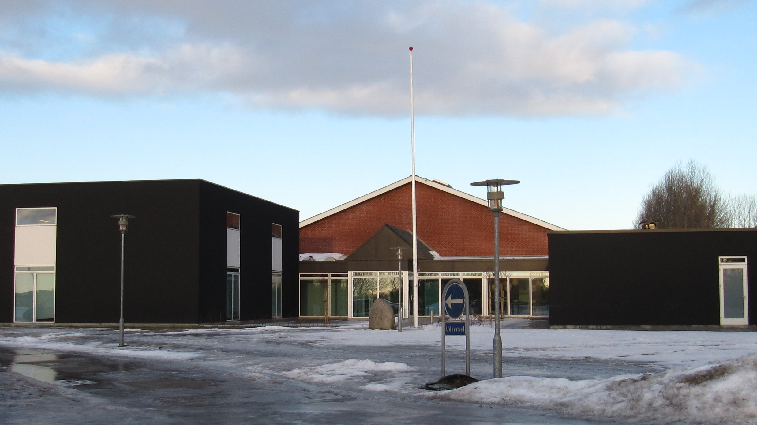 Vester Hassing Hallen in Vester Hassing